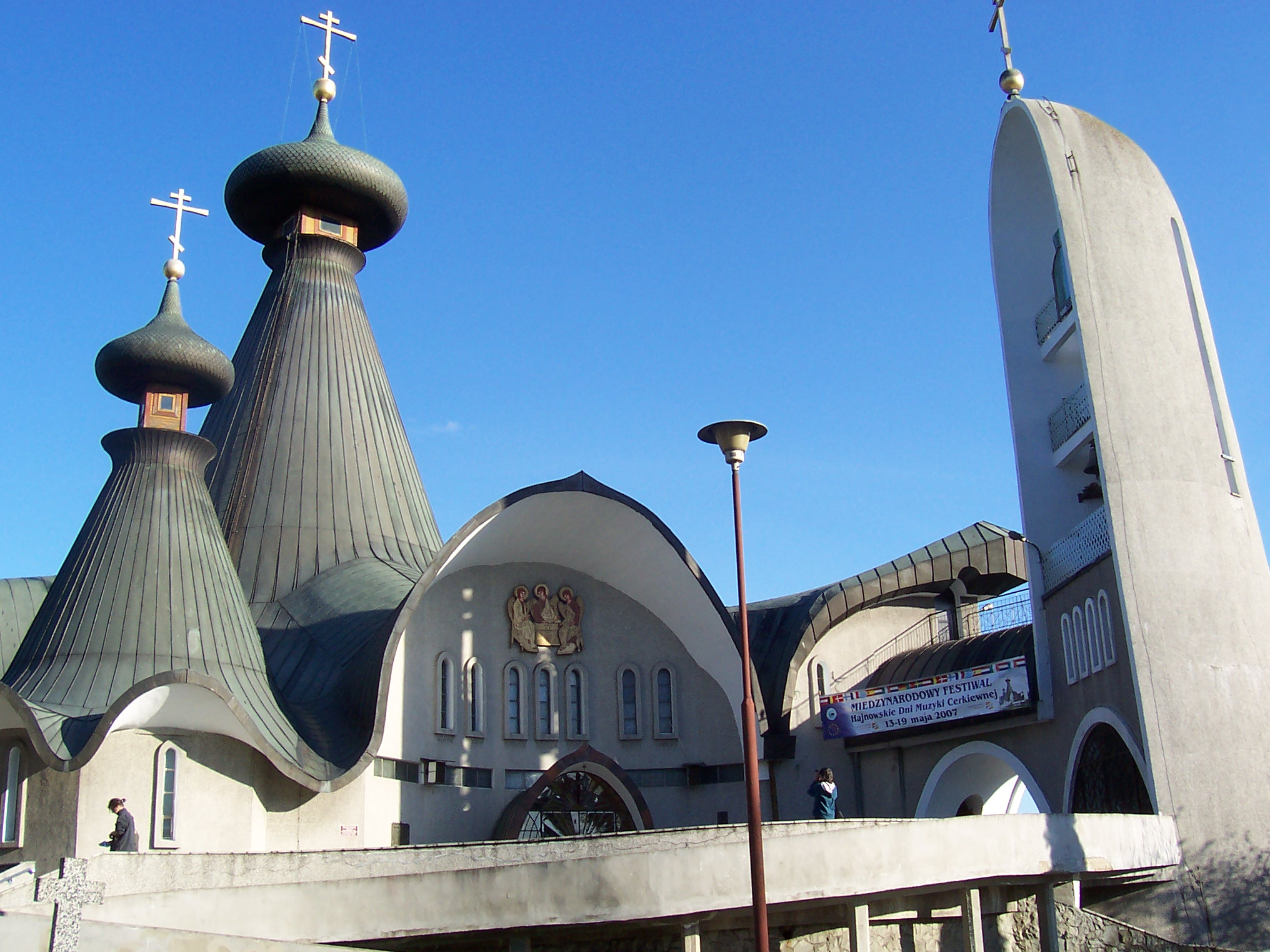 Orthodoxic church in Hajnówka